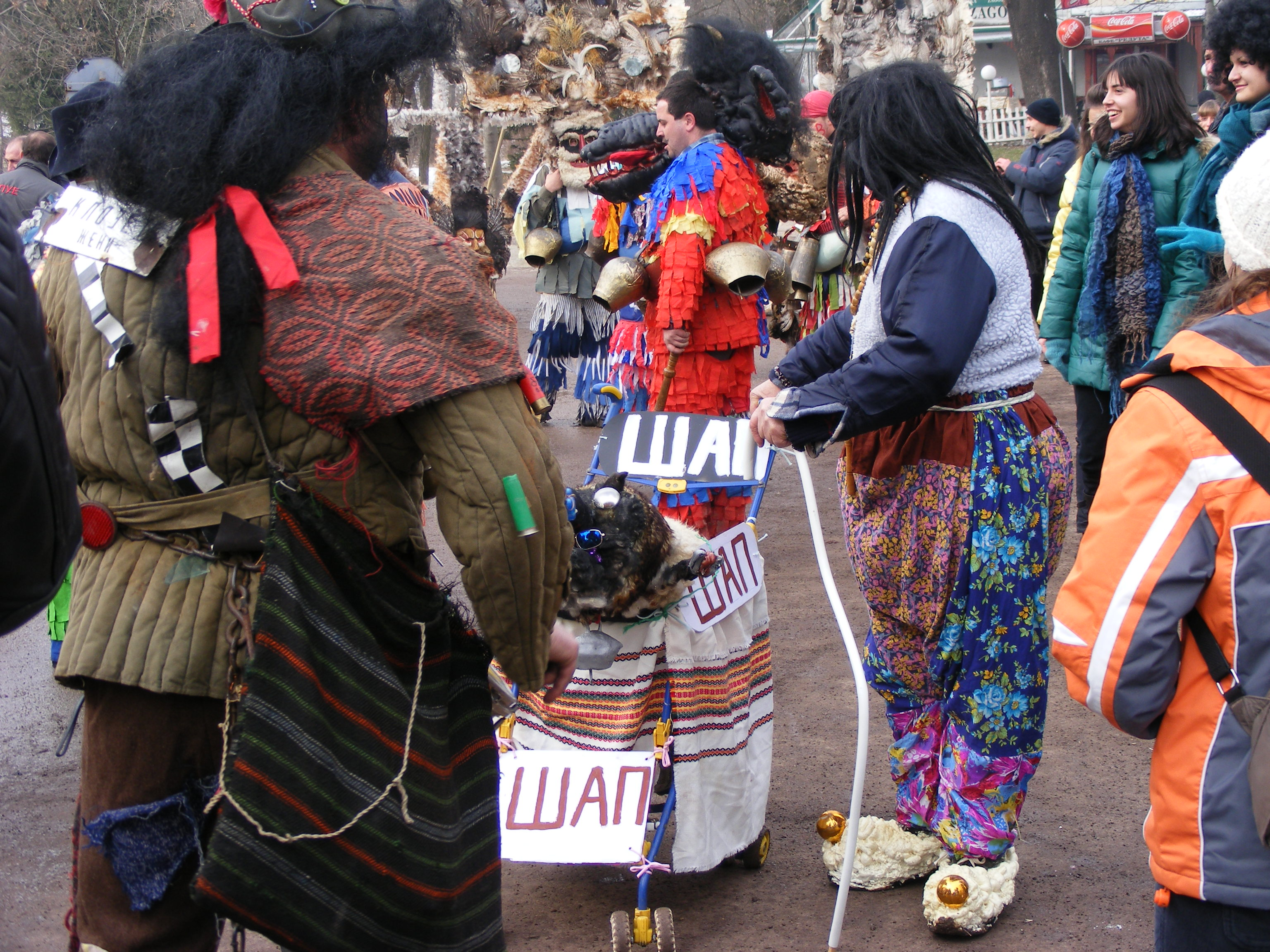 Kukeri Pernik, ("Шап" = Foot-and-mouth disease)